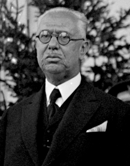 Cropped photograph of Mexican President, Pascual Ortiz Rubio. Cropped and contrast increased using Mac OS (Preview)